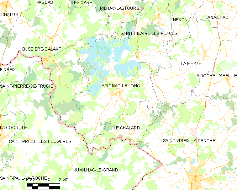 Map of French municipality Ladignac-le-Long